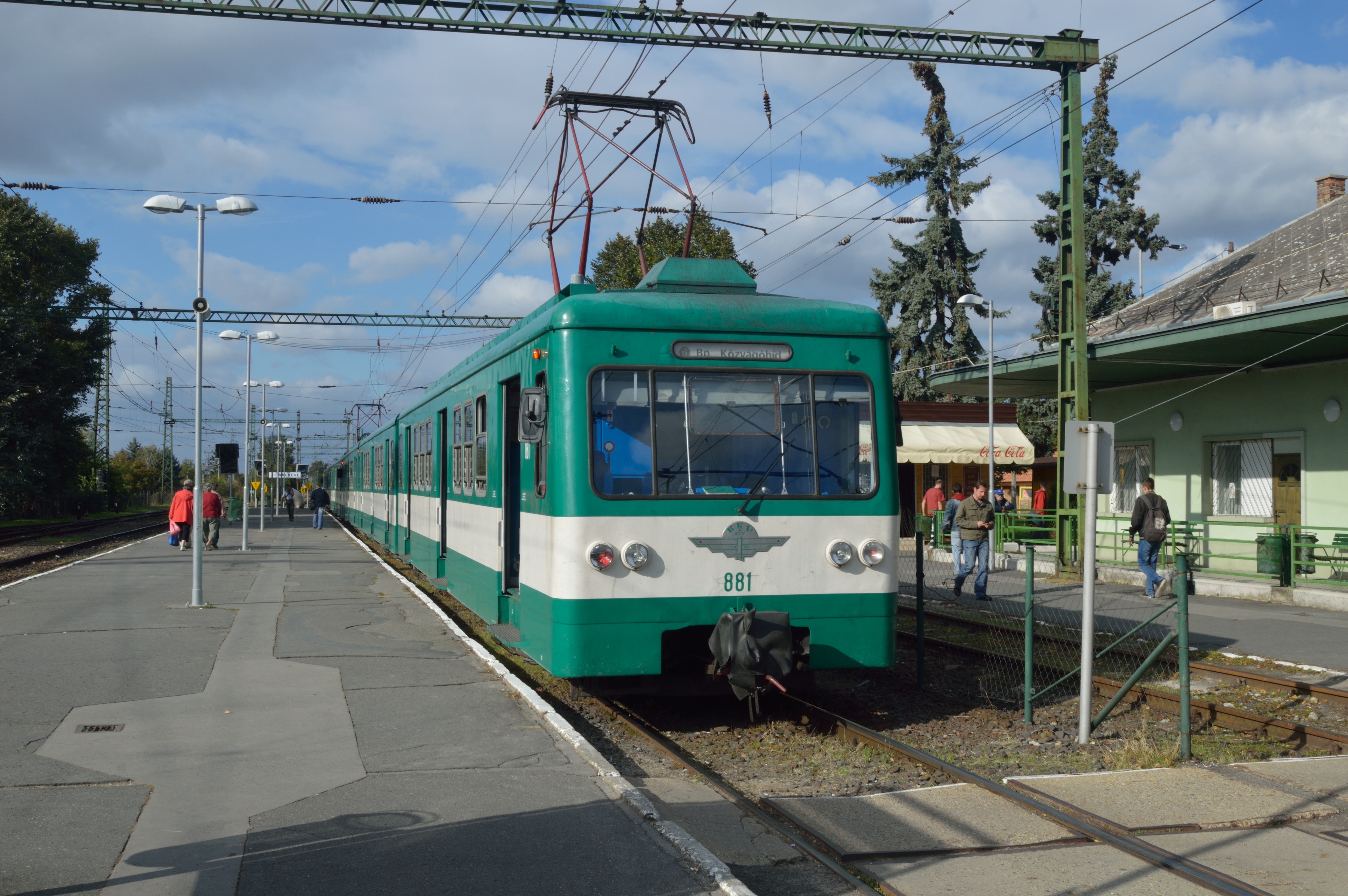 6-car EMU with no. 881 closest to the camera at the terminus station of Ráckeve on 23 September 2013. This line, (Line H6) is the longest of the 4 which radiate out from Budapest, being 40 kms. Trains don't have reporting numbers shown in the timetable, this service seen is the 16:11 Ráckeve to Közvágóhíd. Trains run roughly hourly to the end of the line, but more frequent on the sections closer to Budapest itself.